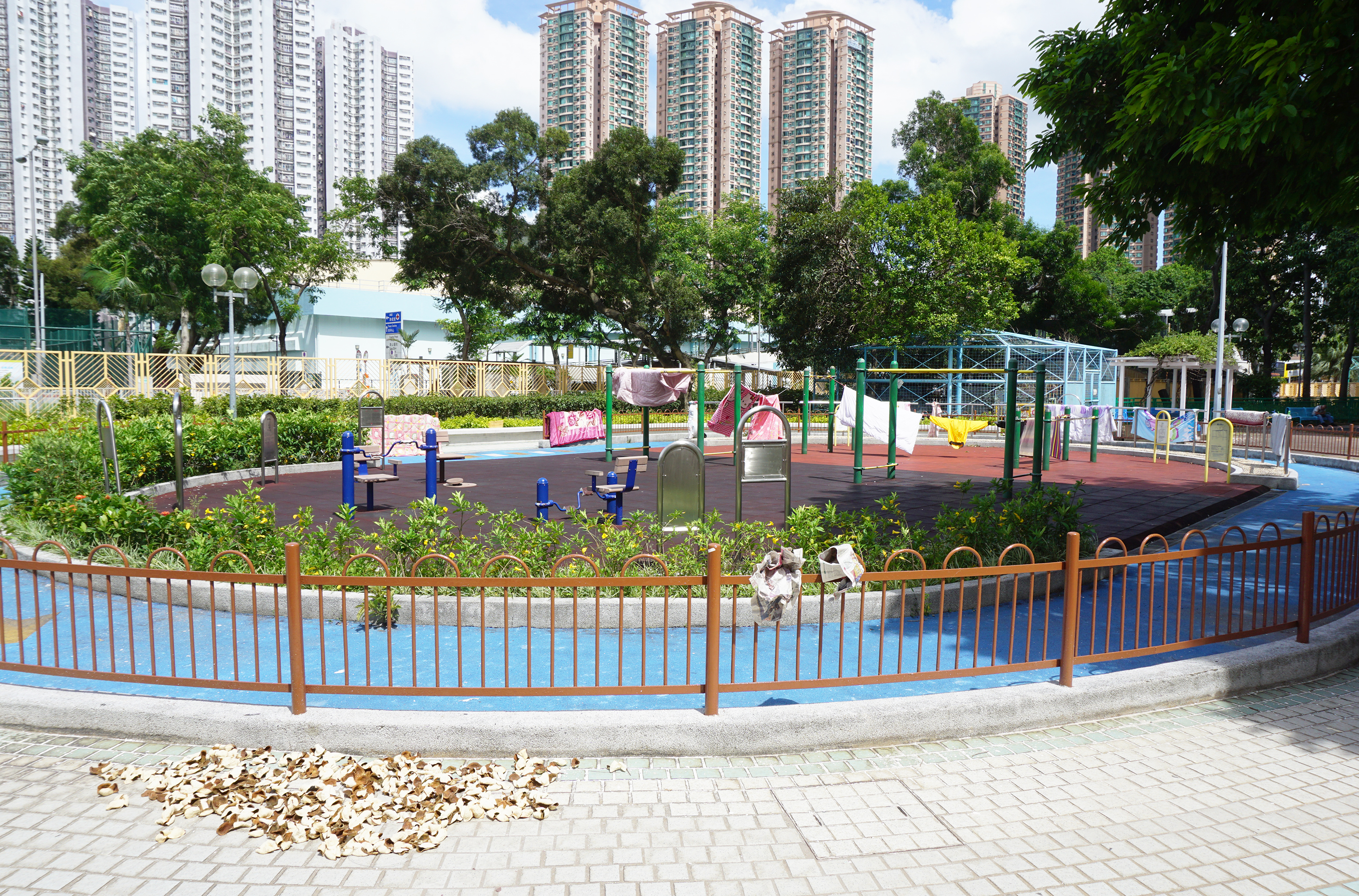 Tai Hing Estate in Tuen Mun, Hong Kong.